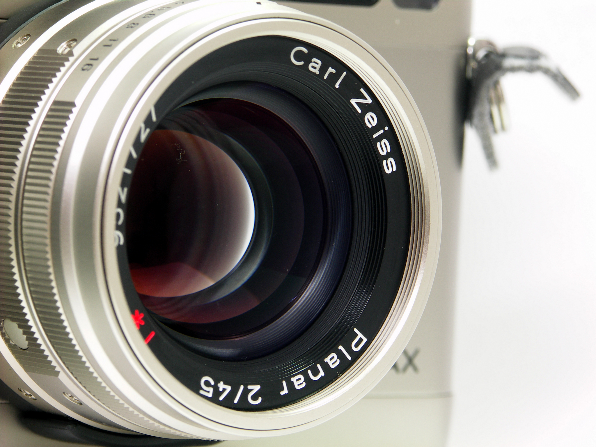 Contax Planar 45mm f2.0